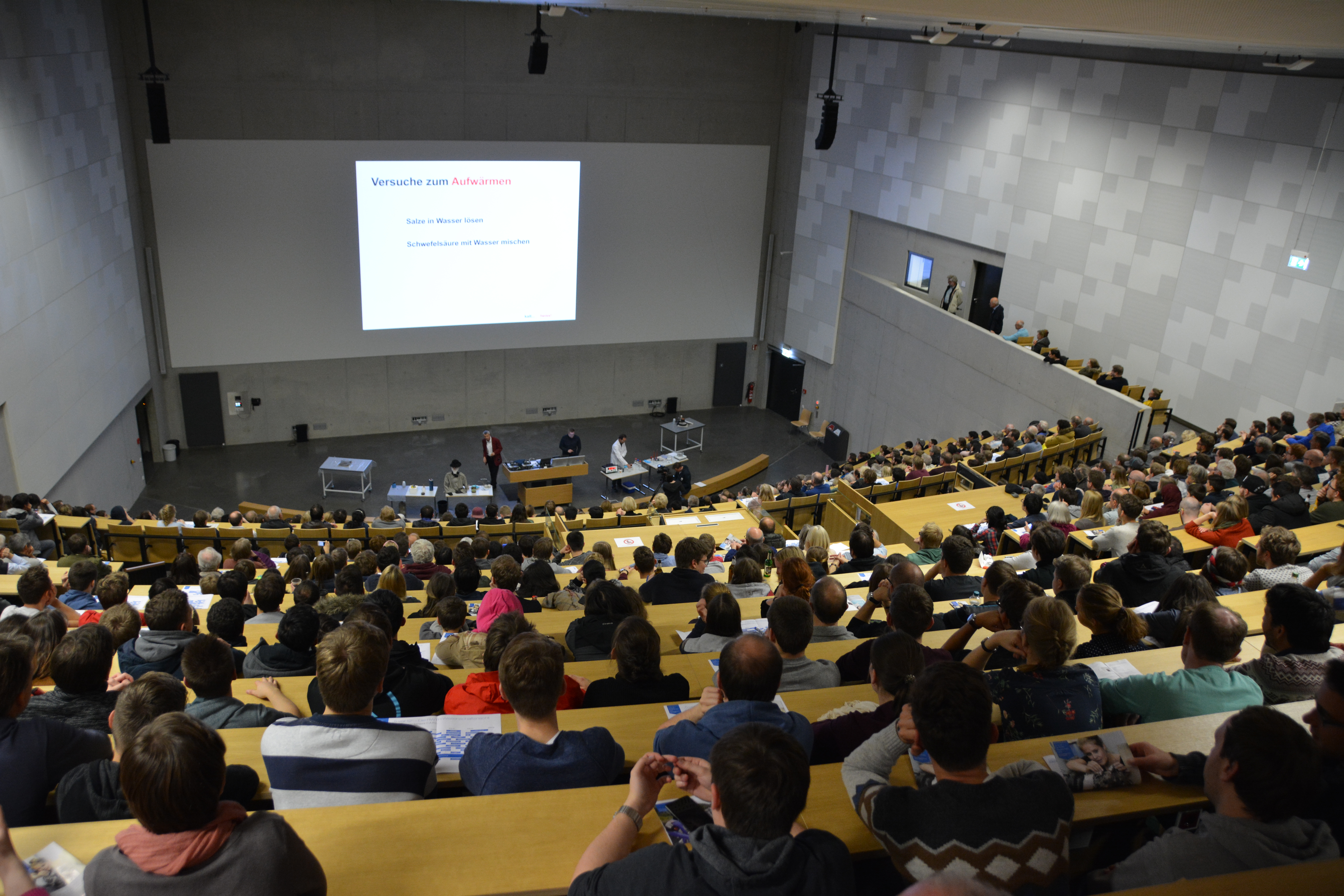 Lecture hall H02 of the RWTH Aachen at the science night on 10.11.2017